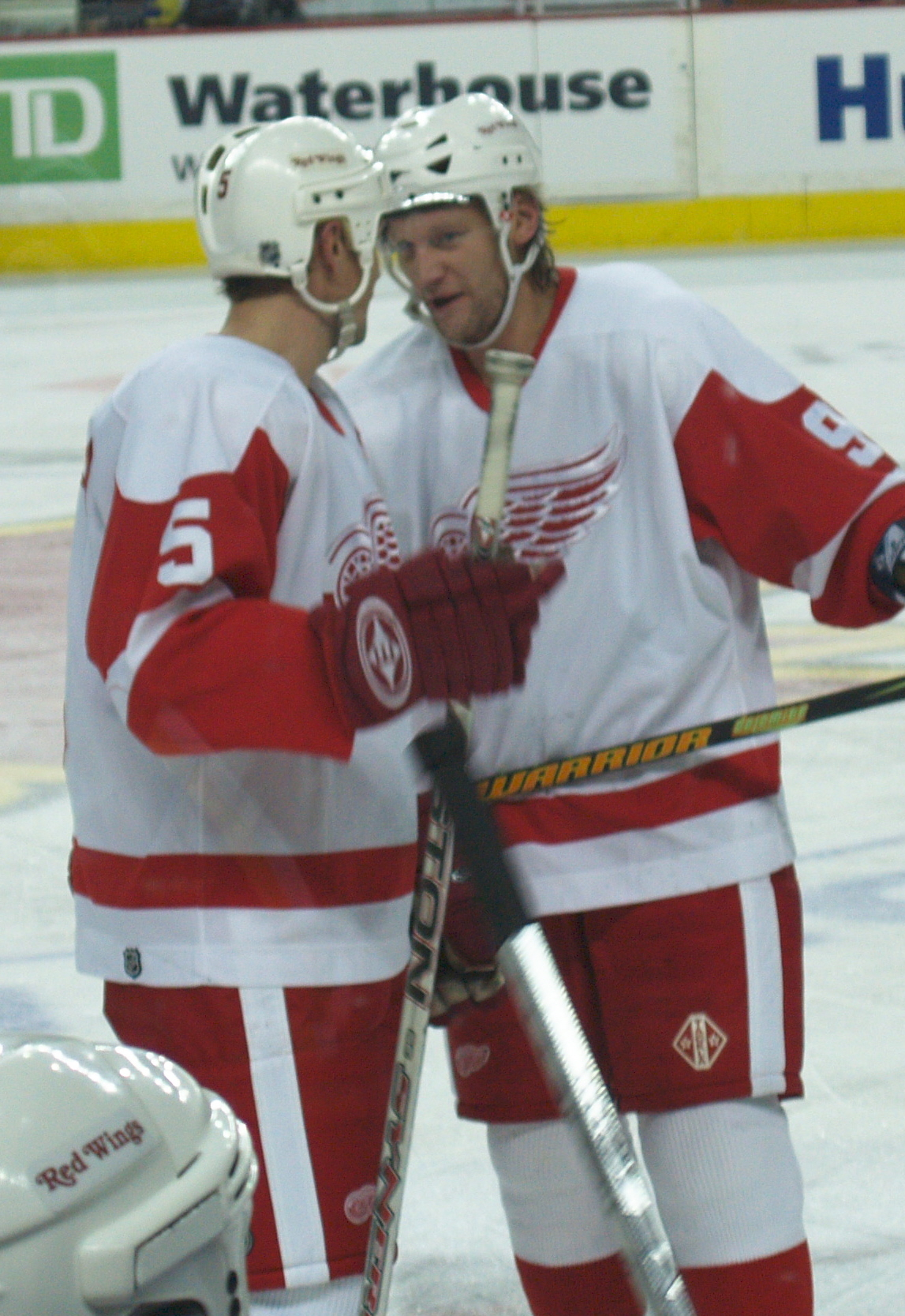 Danny Markov of the Detroit Red Wings speaking with Nicklas Lidstrom in Calgary, Alberta, November 17, 2006.